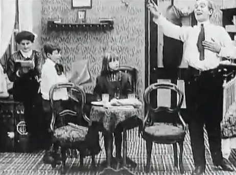 A capture from The Actor's Children (1910) showing the Actor, the Actor's wife and the actor's children. The scene shows the Actor doing a bit of acting in front of his children.